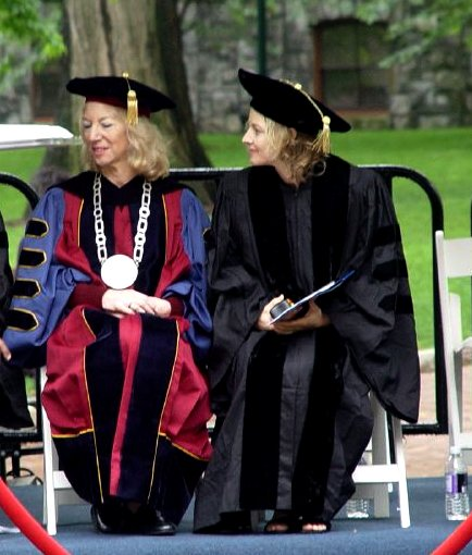 University of Pennsylvania's 250th Commencement:Penn President Dr. Amy Gutmann and Jodie Foster